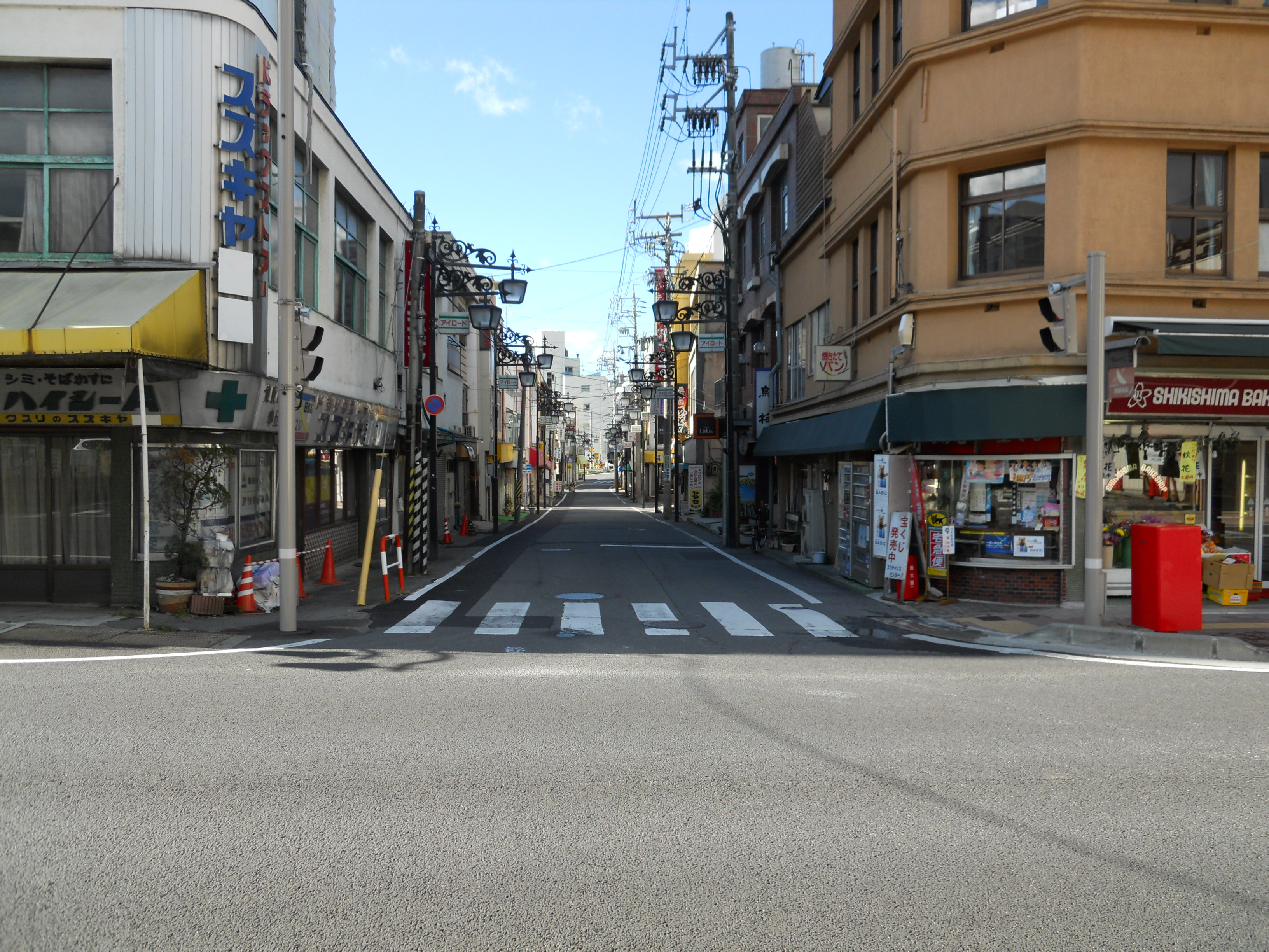 Suwa 1- and 2-chome Intersection in Suwa City, Nagano Prefecture, Japan